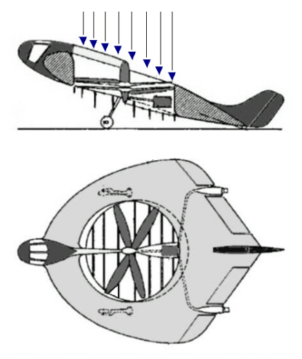 Drawing of the Focke Rochen constructed by Henrich Focke. Drawing is made by Dr. Wessmann 2006. Based on the patent drawing (Patent issued 1939)